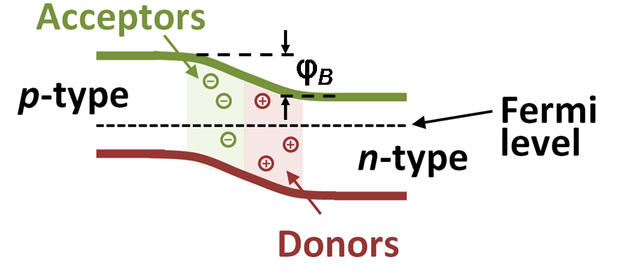 Band diagram for pn-diode at zero bias